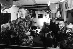 Tech. Sgt. Don Blackwell prepares to take a class "up" in the altitude chamber at Langley AFB, VA Photo by: Master Sgt. Val Gempis McKenna, Pat (July 1997). A Bad Altitude. Airman. United States Air Force. United States of America.